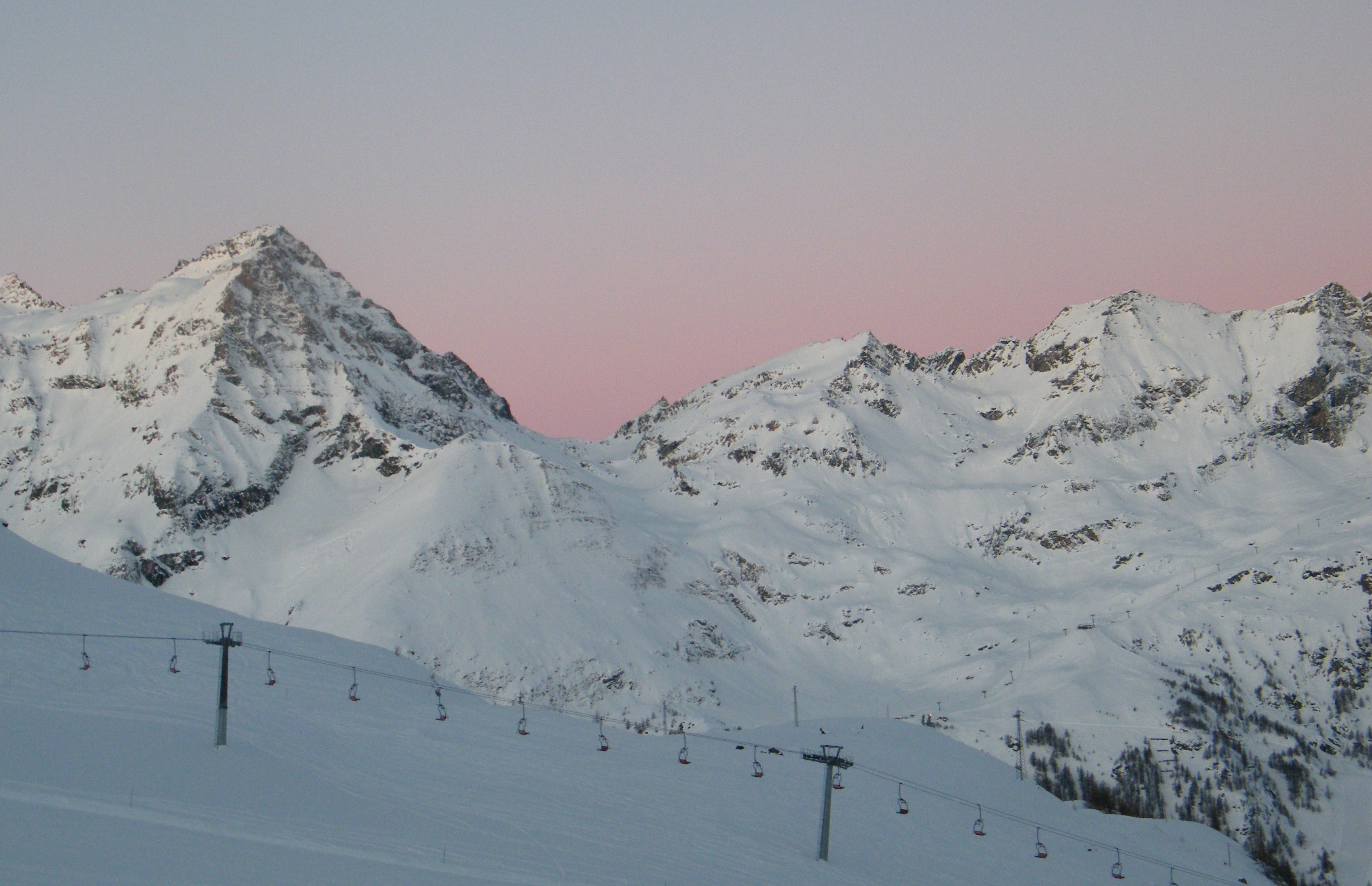 Vista dal rifugio Gabiet